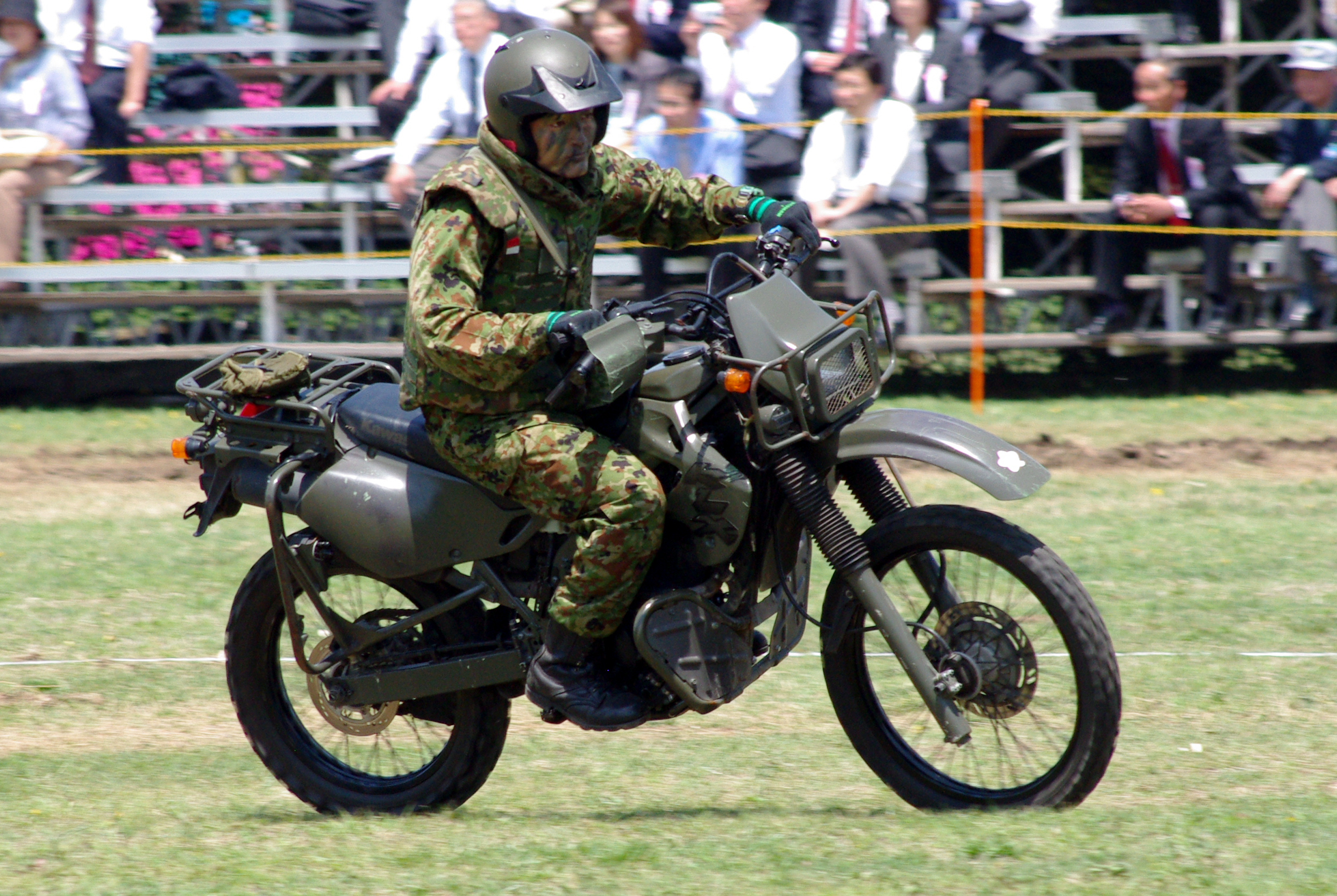 JGSDF reconnaissance bicycle (Kawasaki KLX250),1st Airborne Brigade.Taken by Los688,in Camp Shimoshizu,Japan,at 29-Apr-2012.PD-self. Ja:陸上自衛隊 偵察用オートバイ（カワサキKLX250）。2012年4月29日、下志津駐屯地で撮影にて撮影。第1空挺団。